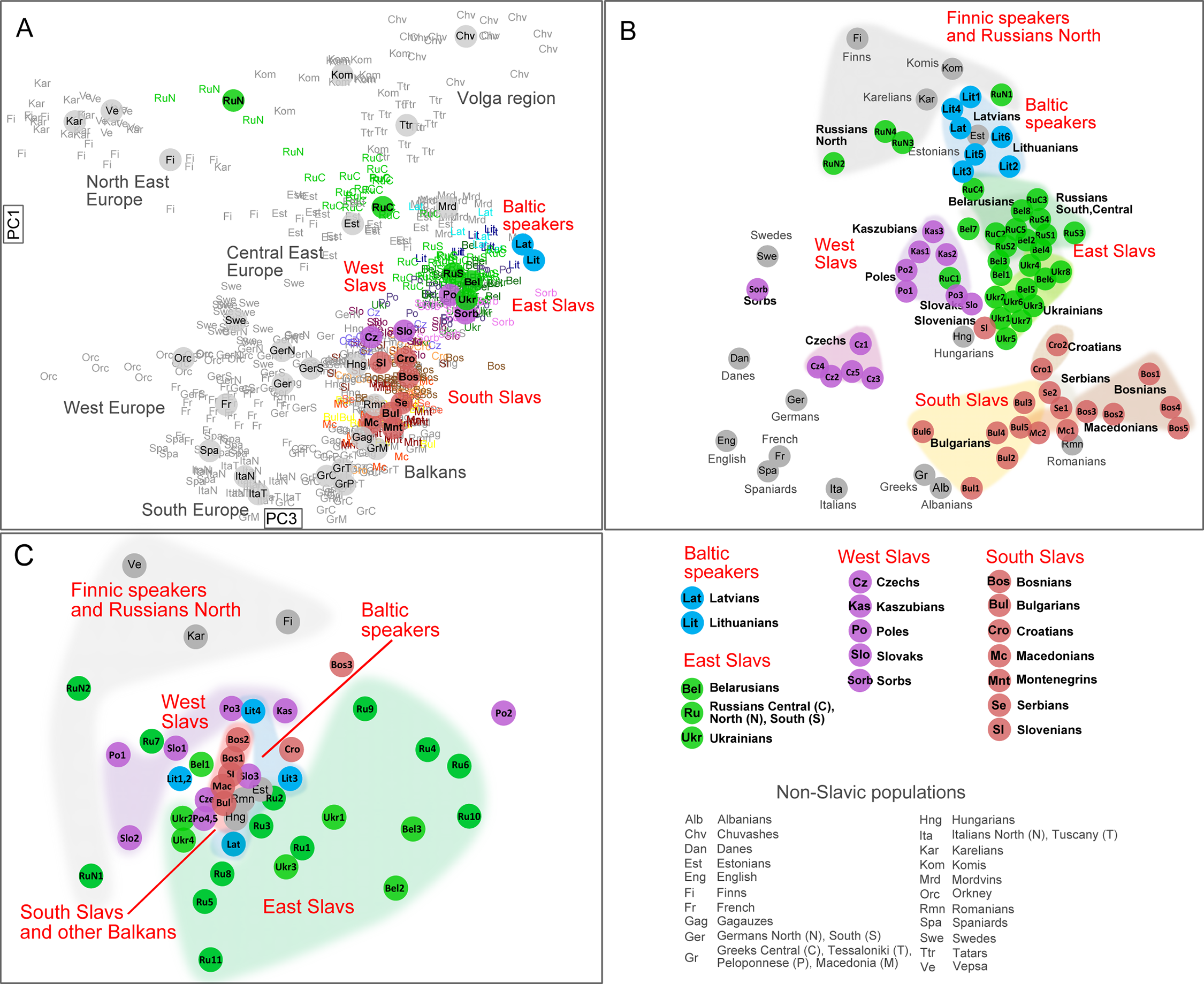 Genetic structure of the Balto-Slavic populations within a European context according to the three genetic systems. a) PC1vsPC3 plot based on autosomal SNPs (PC1 = 0.53; PC3 = 0.26); b) MDS based on NRY data (stress = 0.13); c) MDS based on mtDNA data (stress = 0.20). We focus on PC1vsPC3 because PC2 (S1 Fig) whilst differentiating the Volga region populations from the rest of Europeans had a low efficiency in detecting differences among the Balto-Slavic populations–the primary focus of this work.